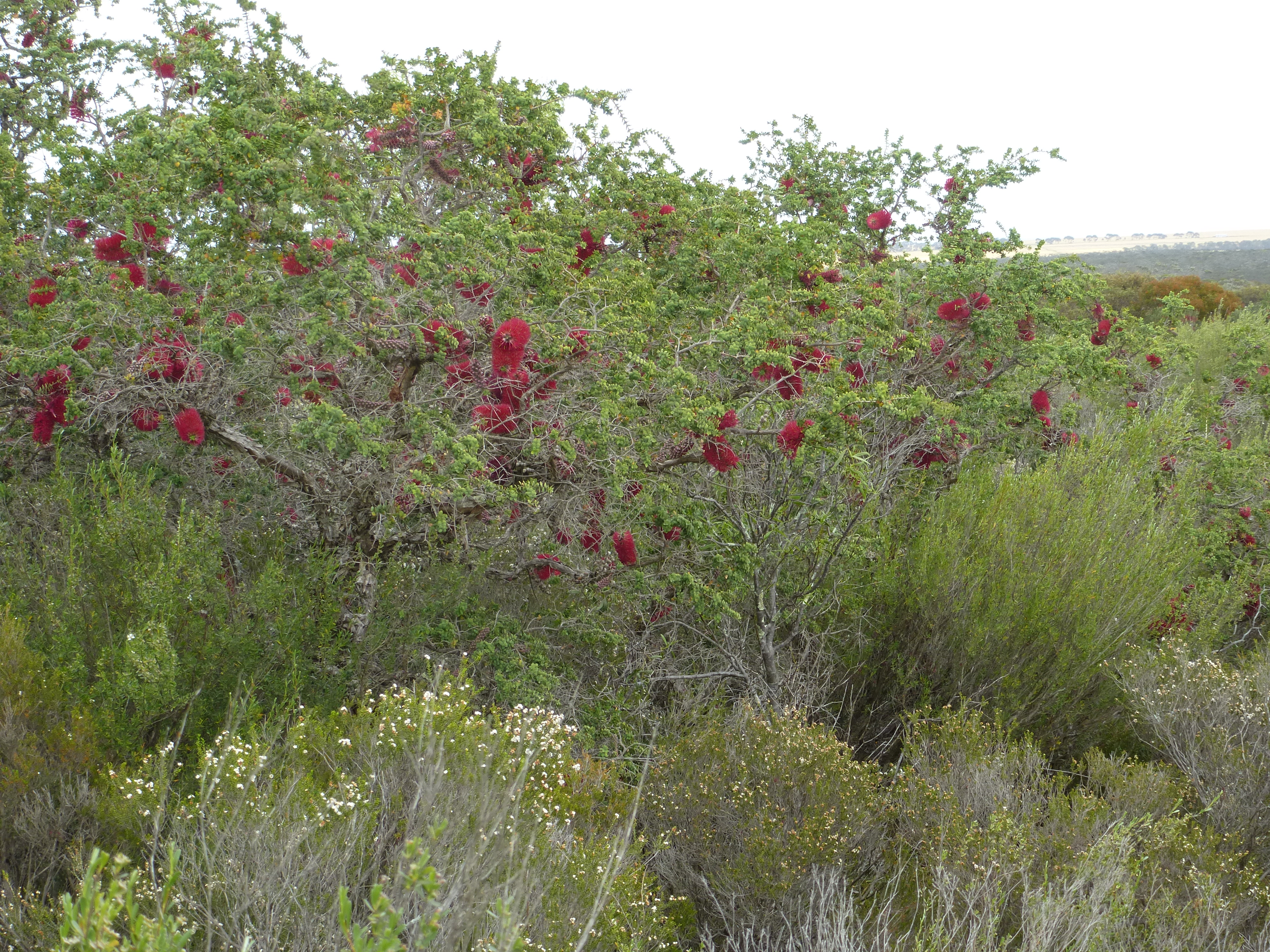 Melaleuca elliptica growing 80 km W of Esperance